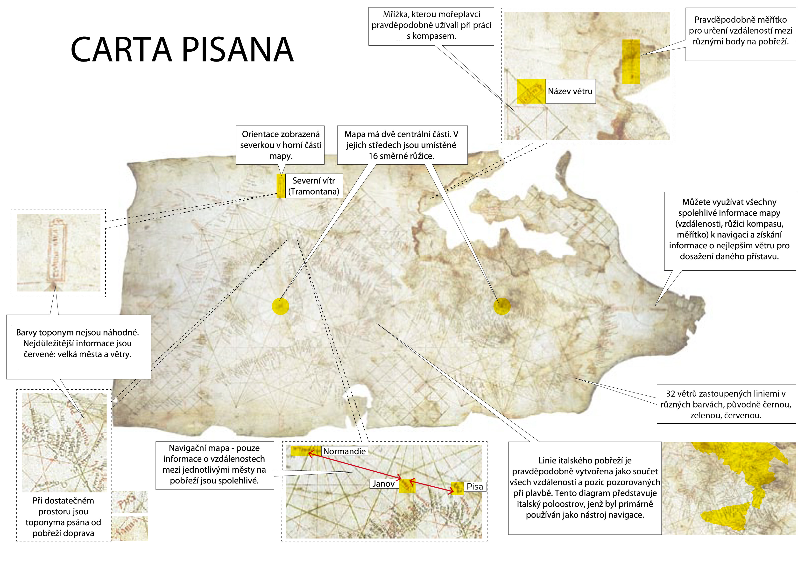 Visual analysis of the portolan chart Carta Pisana.